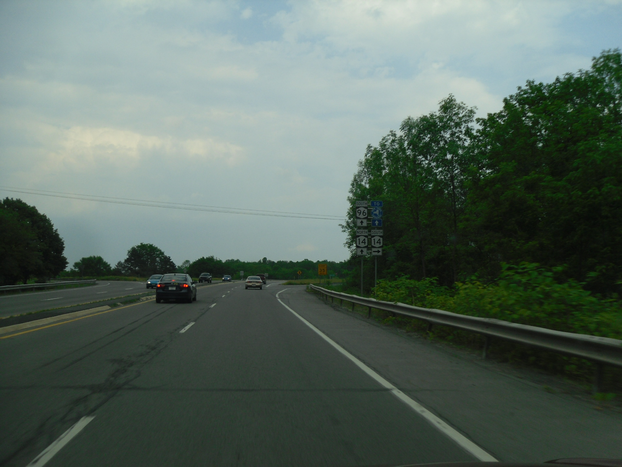 Approaching the interchange between New York State Route 14 and New York State Route 96 on NY 96 southbound in Phelps.